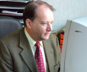 Osmo Buller, Finnish Esperantist and general secretary of World Esperanto Association